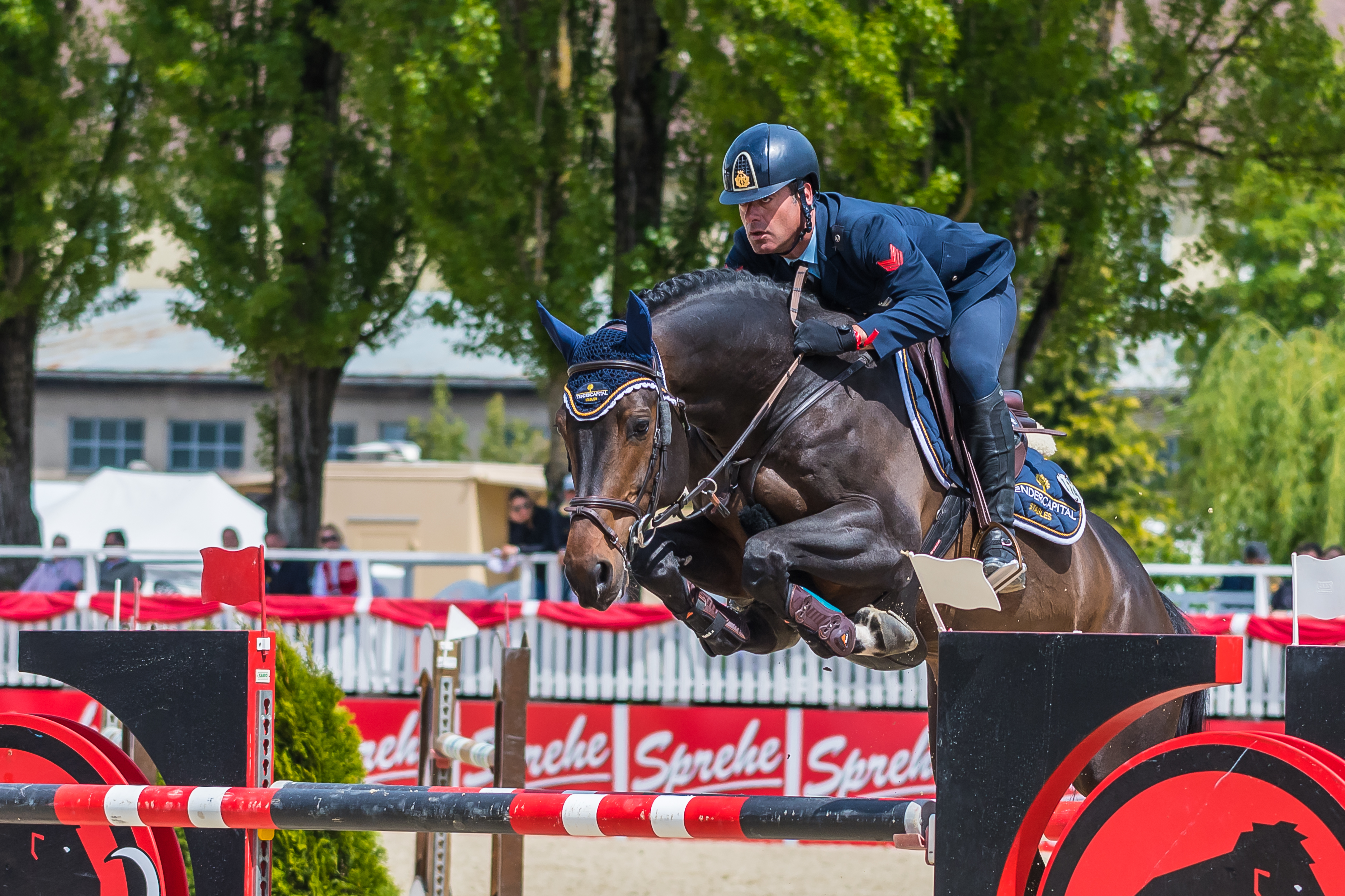 Linzer Pferdefestival / SILVER TOUR / May 4, 2017/ Int. jumping competition against the clock (1.40 m) / Table A, FEI Art. 238.2.1 - CSIO4* - 1 horse per athlete / Tokyo du Soleil, Luca Marziani (ITA)